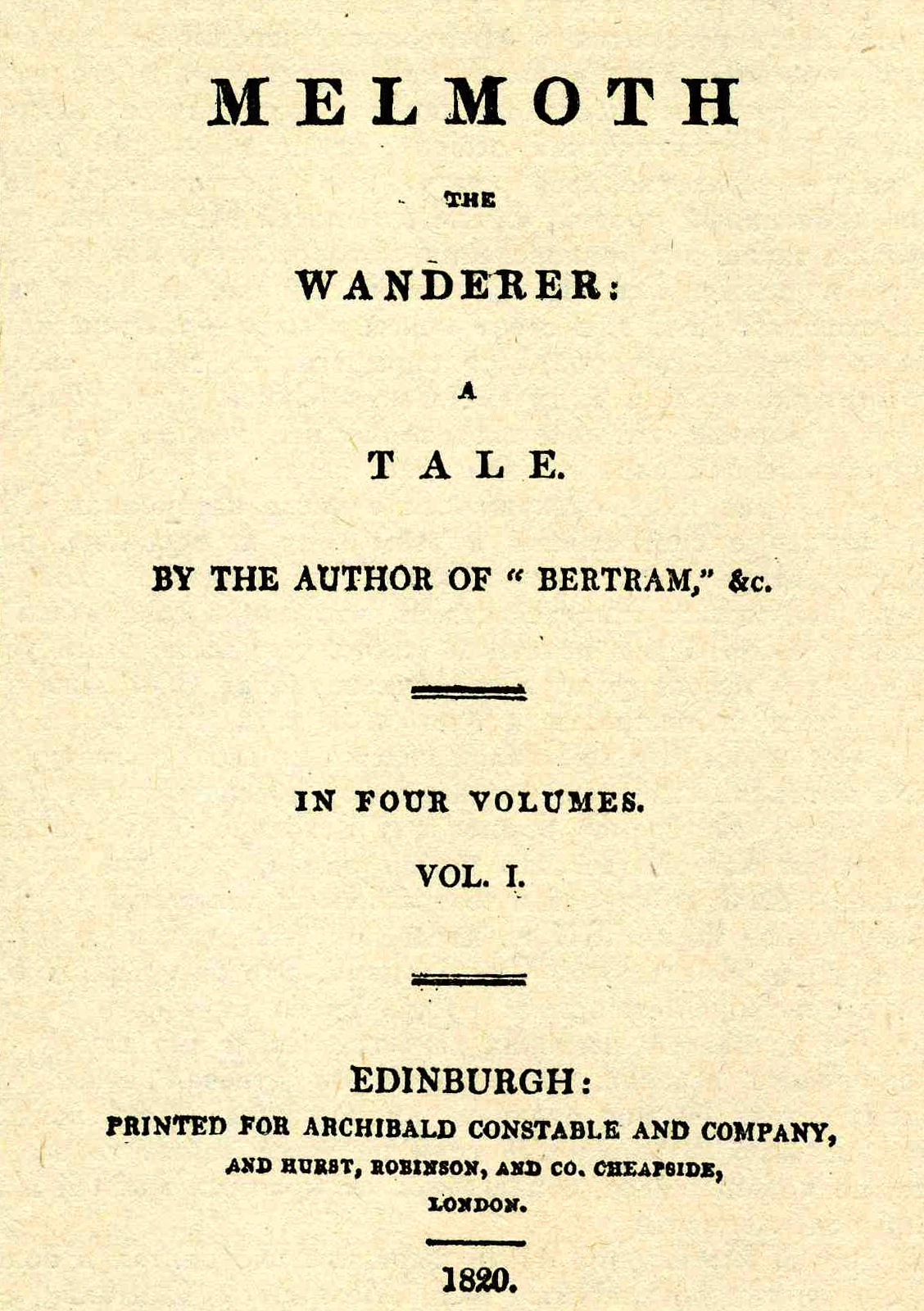 Front page of Melmoth the Wanderer (1820)